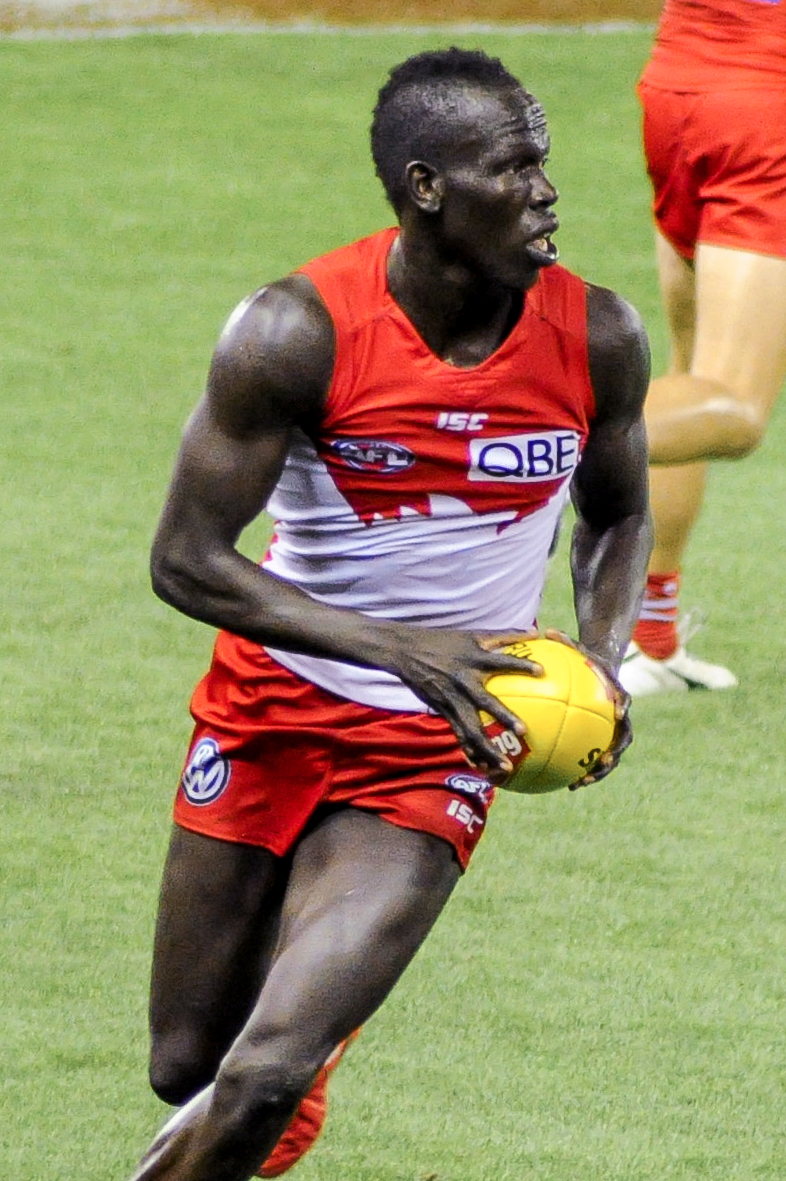 Aliir Aliir during the AFL round two match between the Western Bulldogs and Sydney on 31 March 2017 at the Etihad Stadium in Melbourne, Victoria.